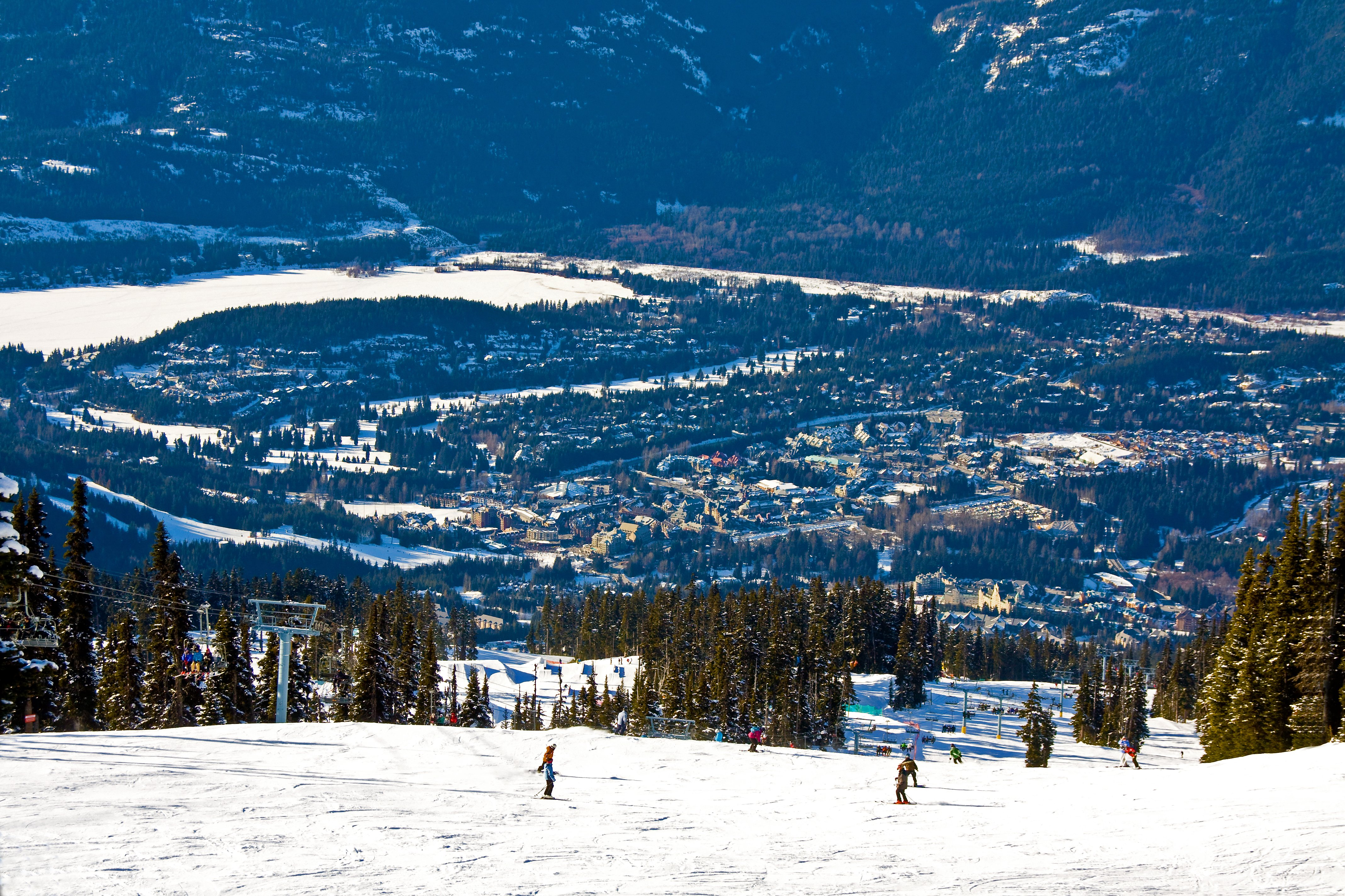 Whistler Village from the Blackcomb Peak-2-Peak Gondola terminal.